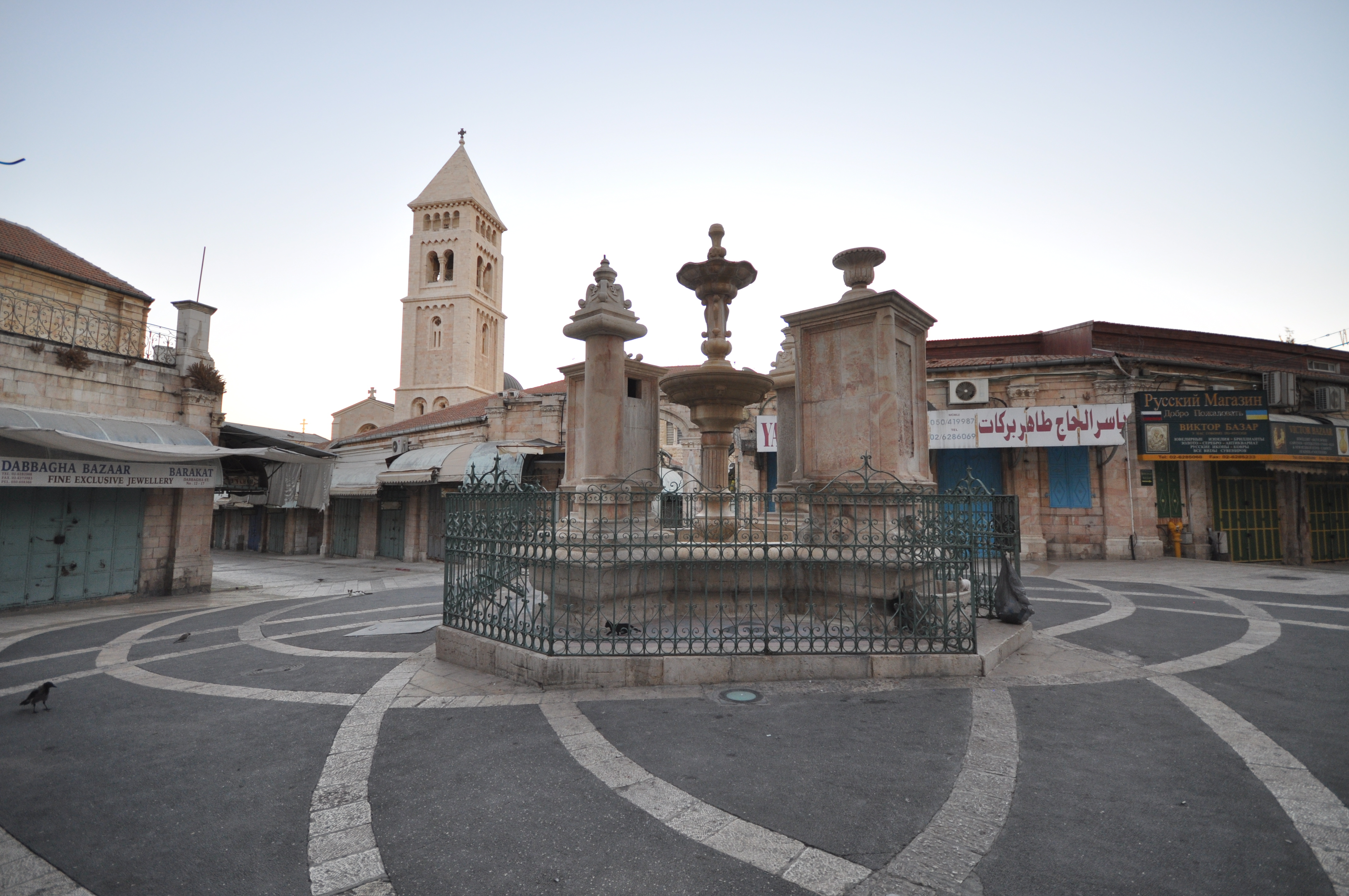 The Muristan is a complex of streets and shops in the Christian Quarter of the Old City of Jerusalem. The site was the location of the first hospital of the Knights Hospitaller.